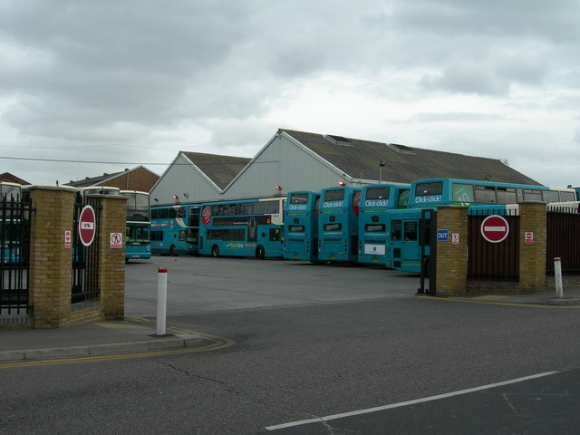 Gillingham Bus Depot On Nelson Road.